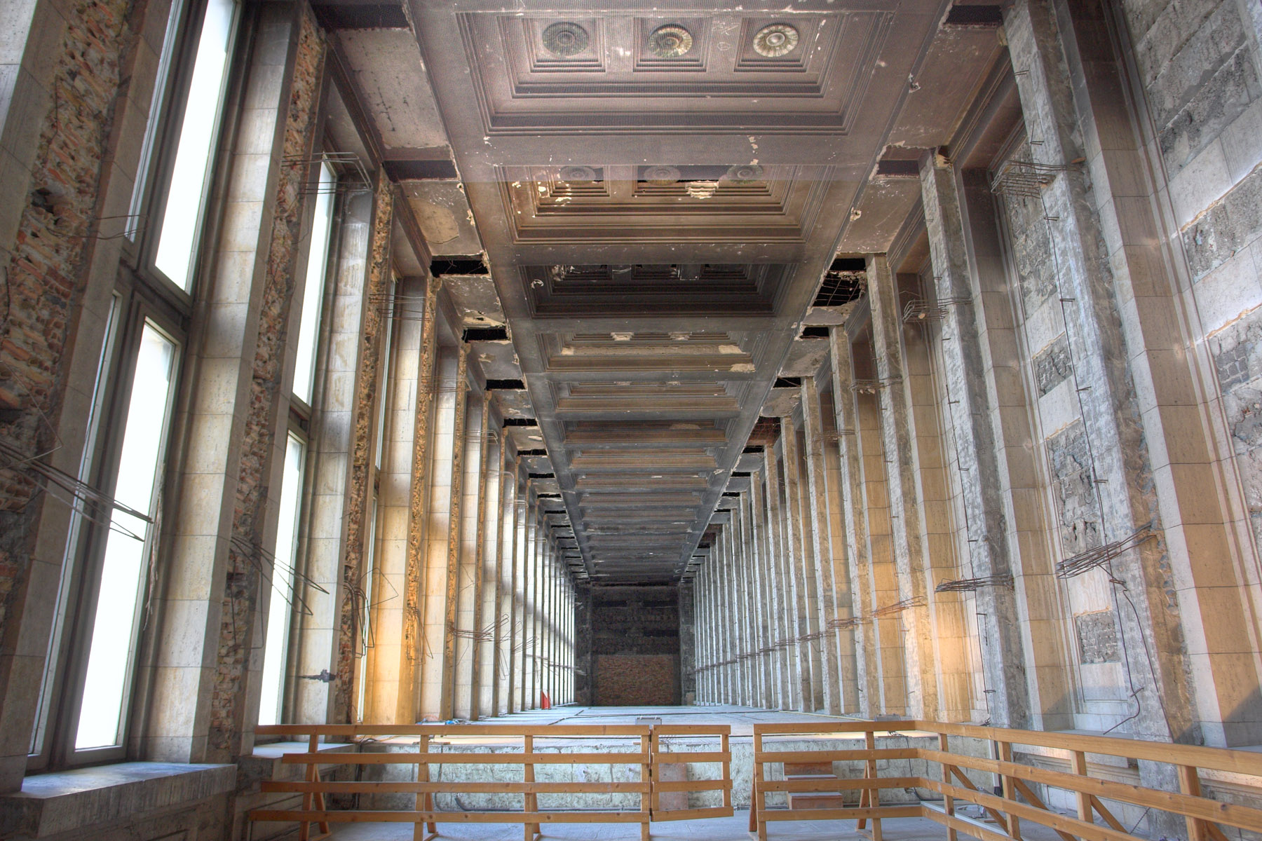 The unused upper part of the entry hall of the former airport Berlin Tempelhof.